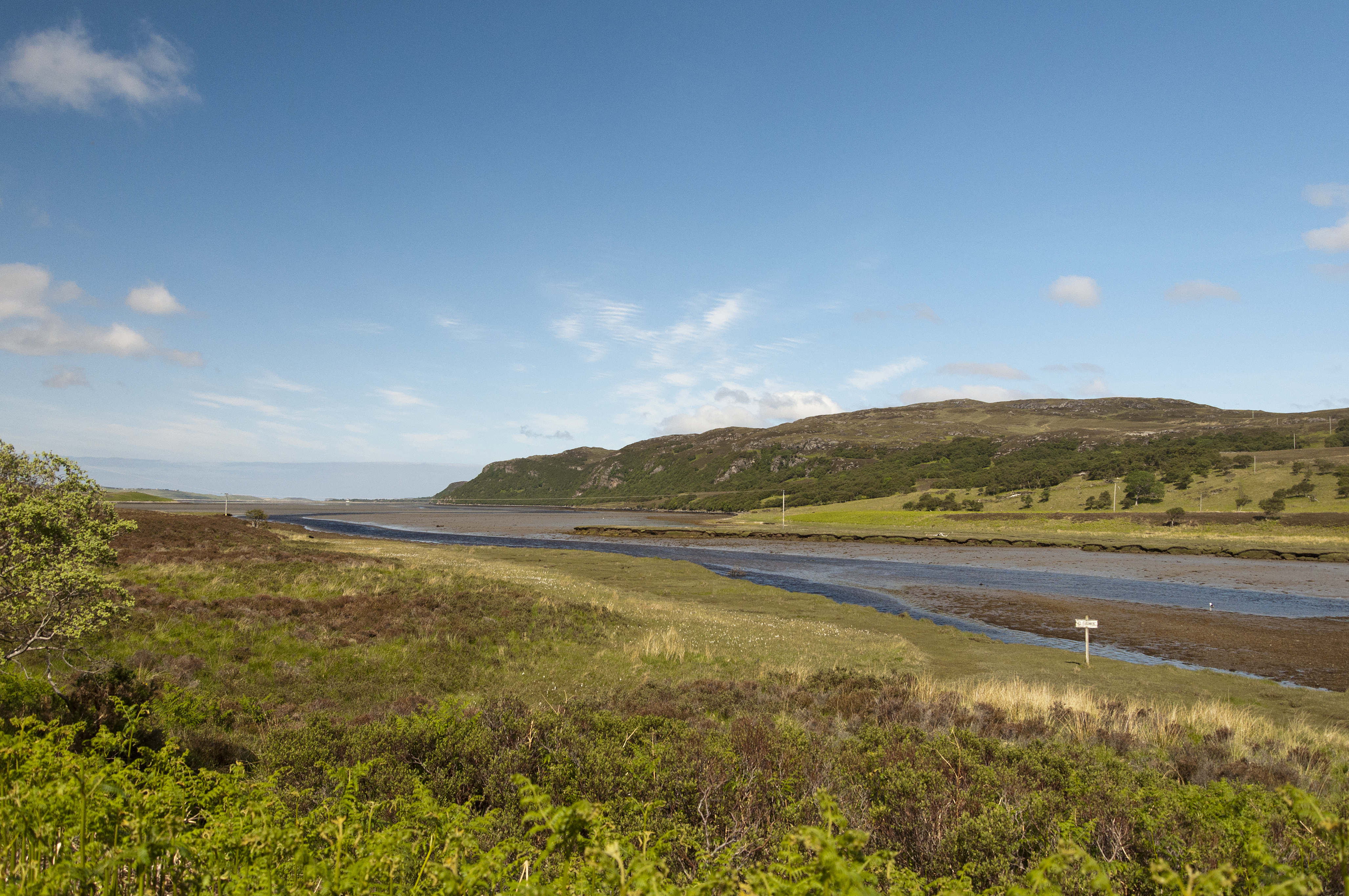 Kyle of Tongue from the south, Tongue, Scotland